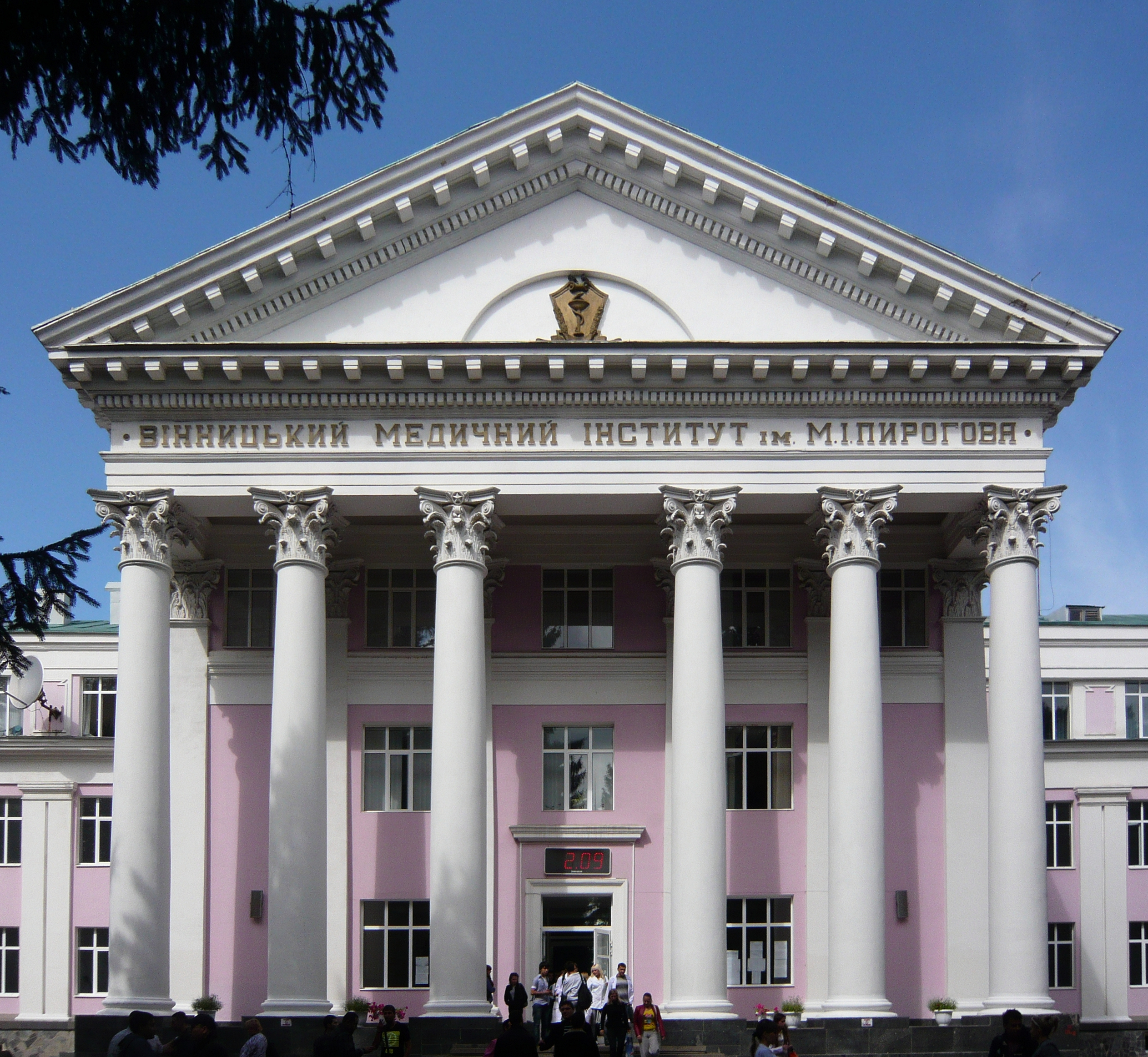 Main building of the Vinnytsia National Medical University (Pirogov University), 56 Street Pirogova, Vinnytsia, Ukraine 21018